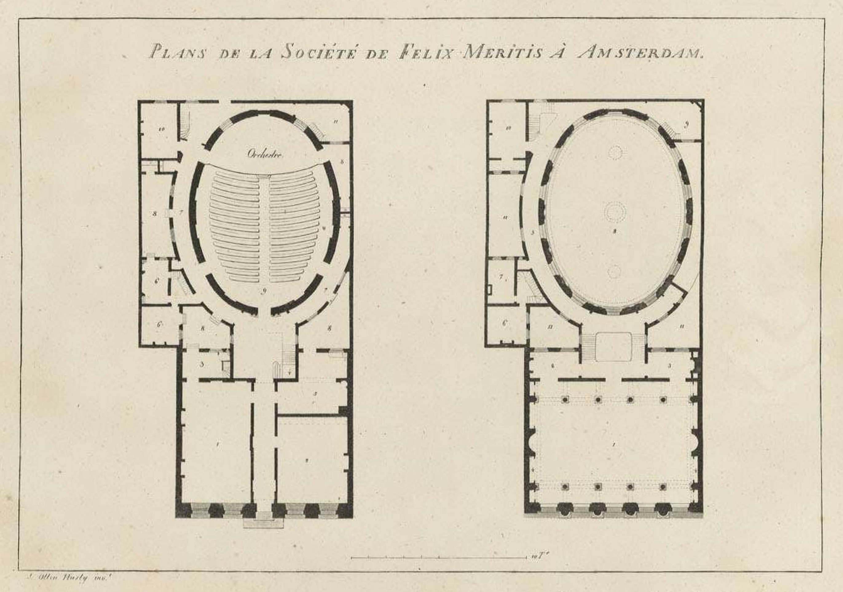 Pierre-Jacques Goetghebuer (1788-1866) became professor of architecture in Ghent, after his studies for architectural drawing at the local art academy. From 1817 he started working on a publication with images of the most remarkable buildings from the newly created United Kingdom of the Netherlands. This book would include both old and contemporary, neoclassicist buildings. Most of the 120 plates depict buildings from the Southern Netherlands, especially Brussels and Ghent. Goetghebuer executed the engravings based upon his own sketches or designs by the architects themselves. Other artists finished the engravings in aquatint. Goetghebuer published this collection of engravings in 1827 with publisher André Benoît II Steven, and he dedicated them to King William I. Many buildings in this book have since disappeared, hence its significant historical importance. Also published in Dutch, with the title Verzameling der merkwaardigste gebouwen in het Koningrijk der Nederlanden.